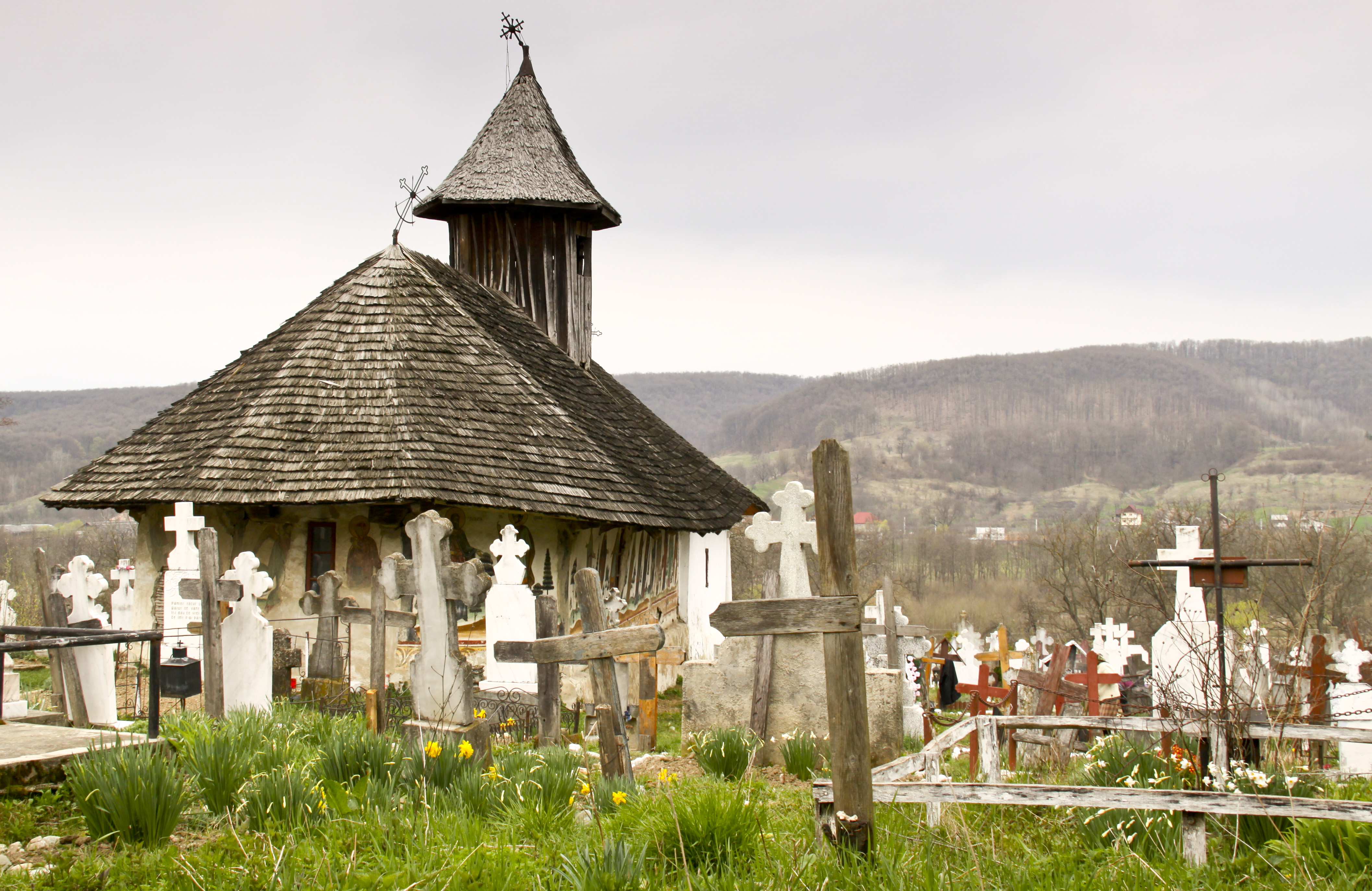 Voroveni, Argeş county, Romania: the wooden church.